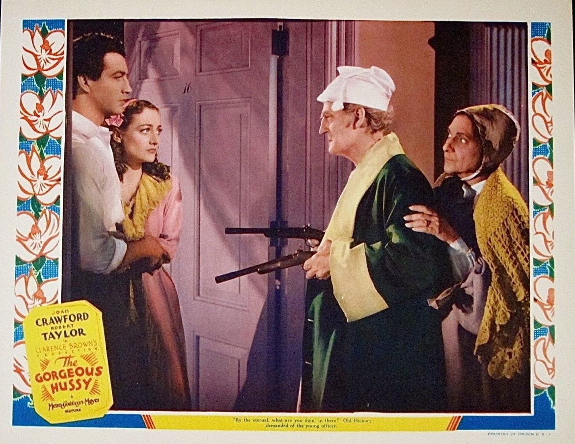 Lobby card for the 1936 film The Gorgeous Hussy.